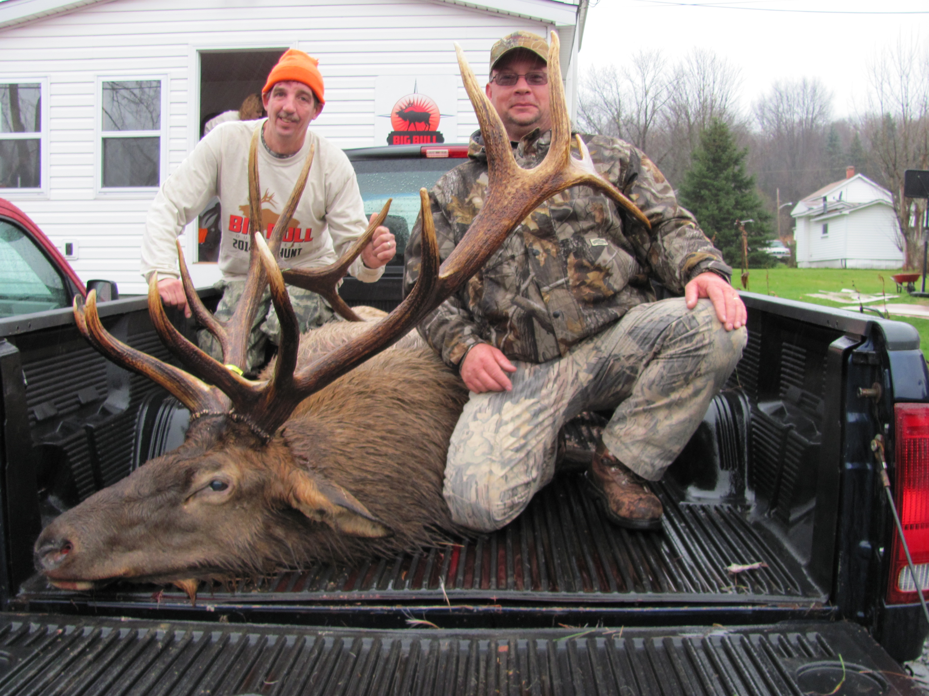 Big bull Outfitters guide Scott Caldwell with Hunter Mark Wickizer.